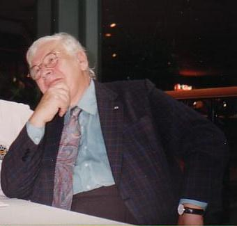 Peter Ustinov at a book signing session at the ABC Shop at The Myer Centre in Brisbane, Queensland, Australia